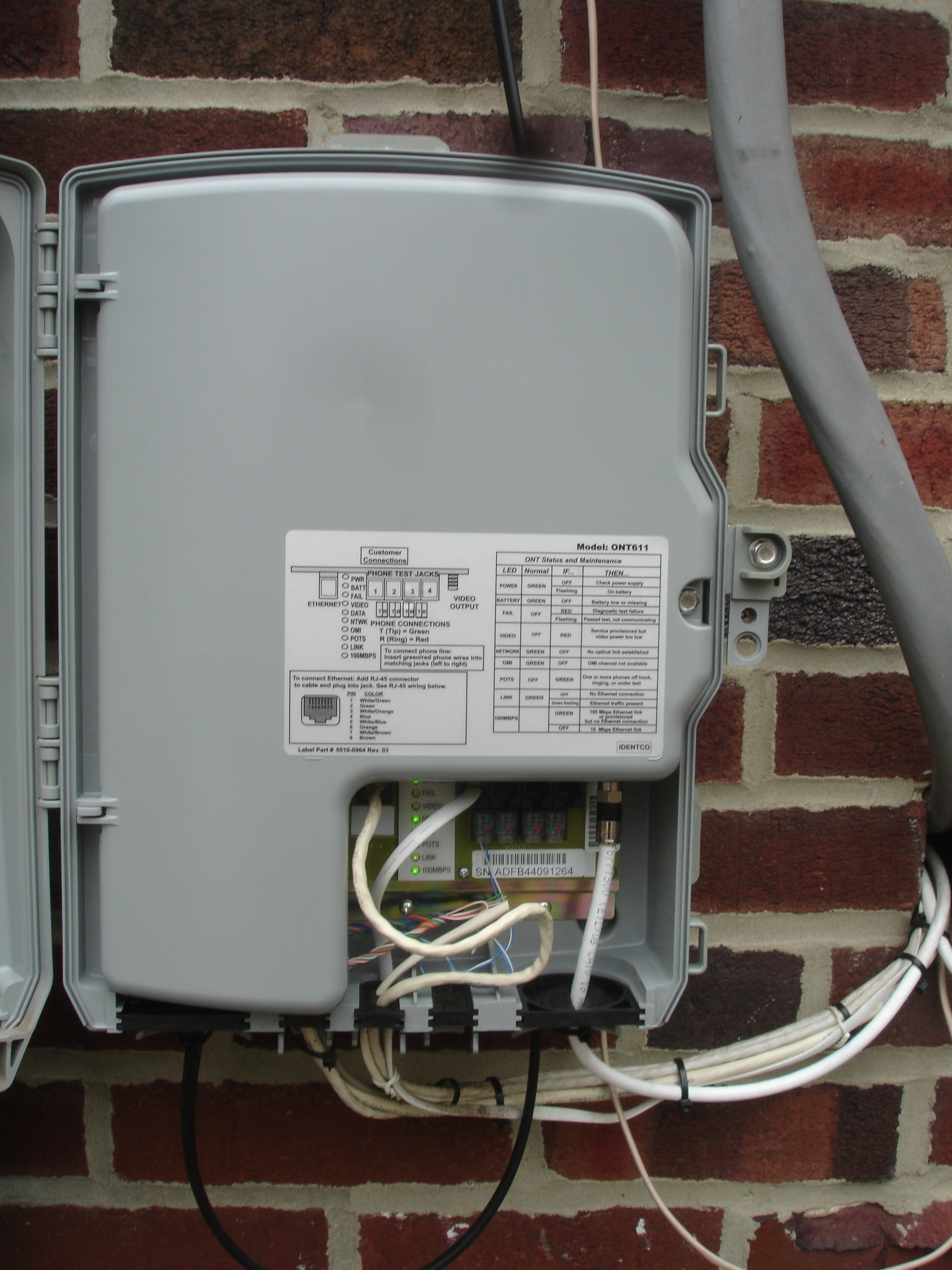 Tellabs Optical Network Terminal (ONT) model 611, opened